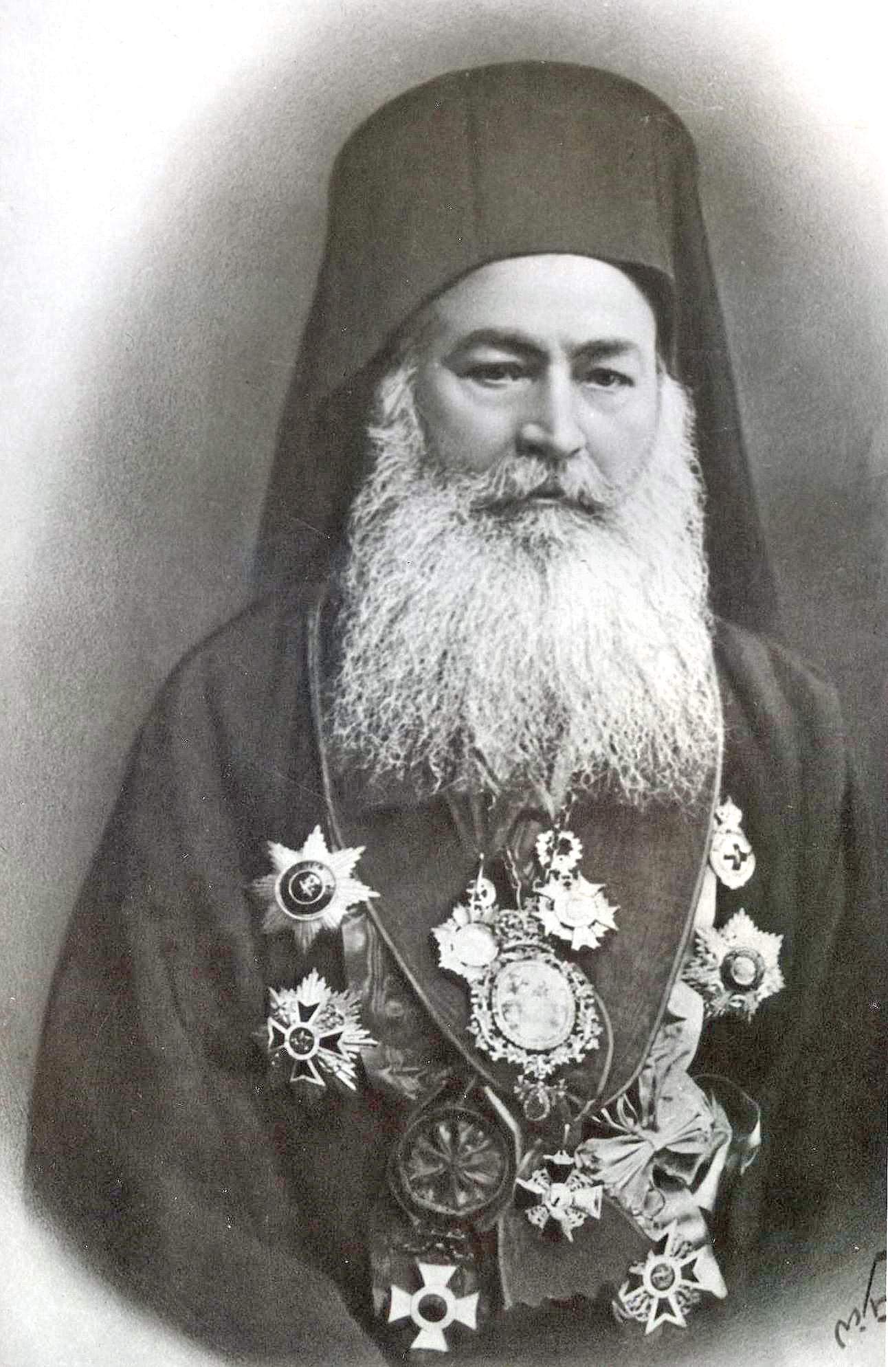 Maxim, Bishop of Plovdiv